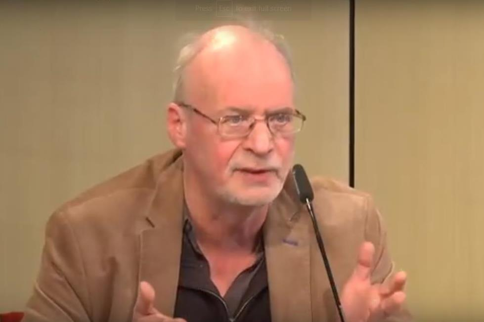 German writer Christian Bommarius. Panel Akademie der Künste Colonial Repercussions - Legal interventions against (post-)colonial crimes. 27 Jan. 2018